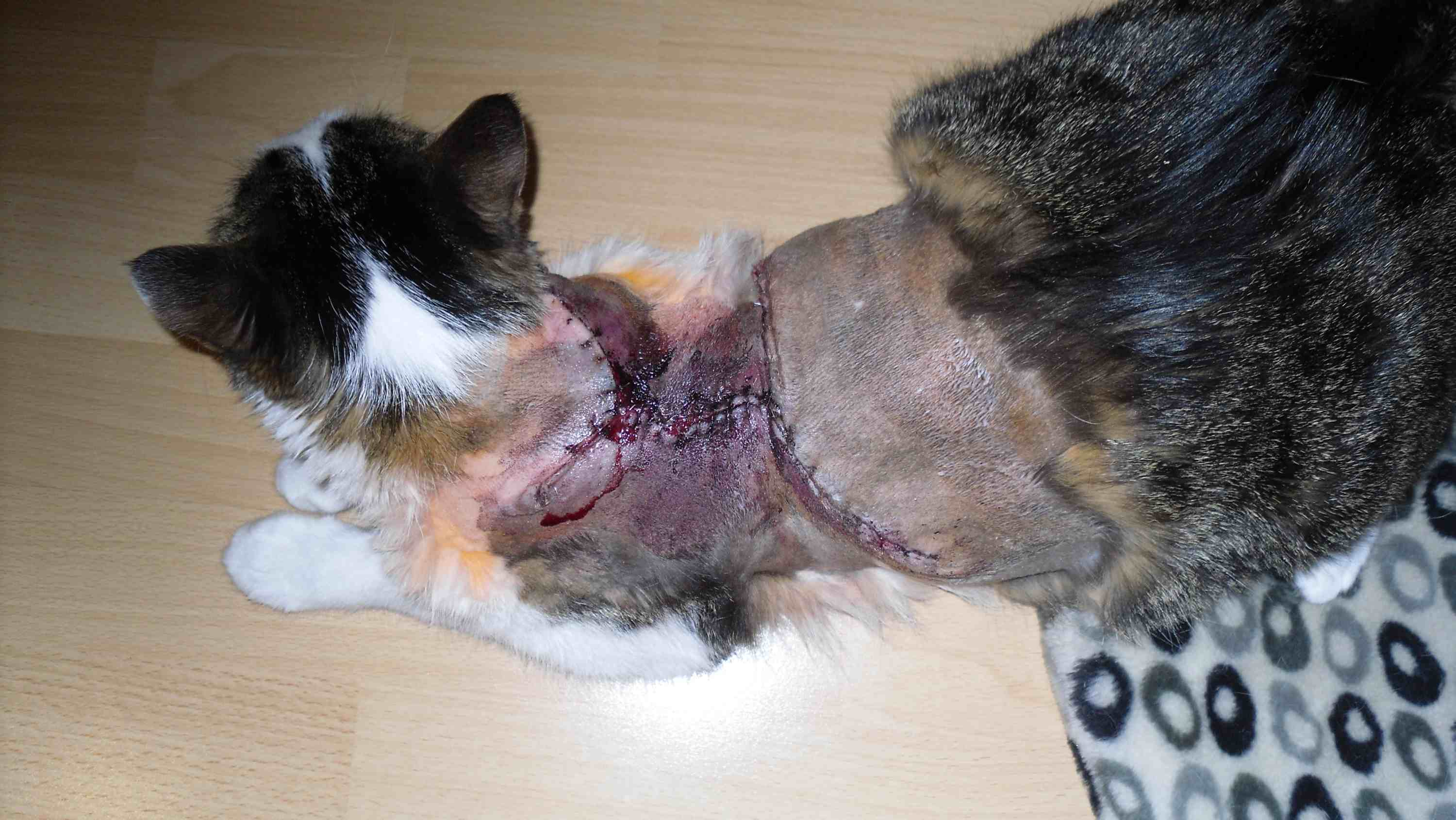 My Cat after the 4th radical Fibrosarcome op, 860g